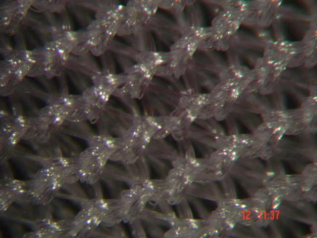 Microscopic image of the structure of a warp knitted fabric made of synthetic yarns.The interesting point is the net like structure of the fabric that is quite different from the common image of weft knitting we usually visualise when we think of knitted structures.